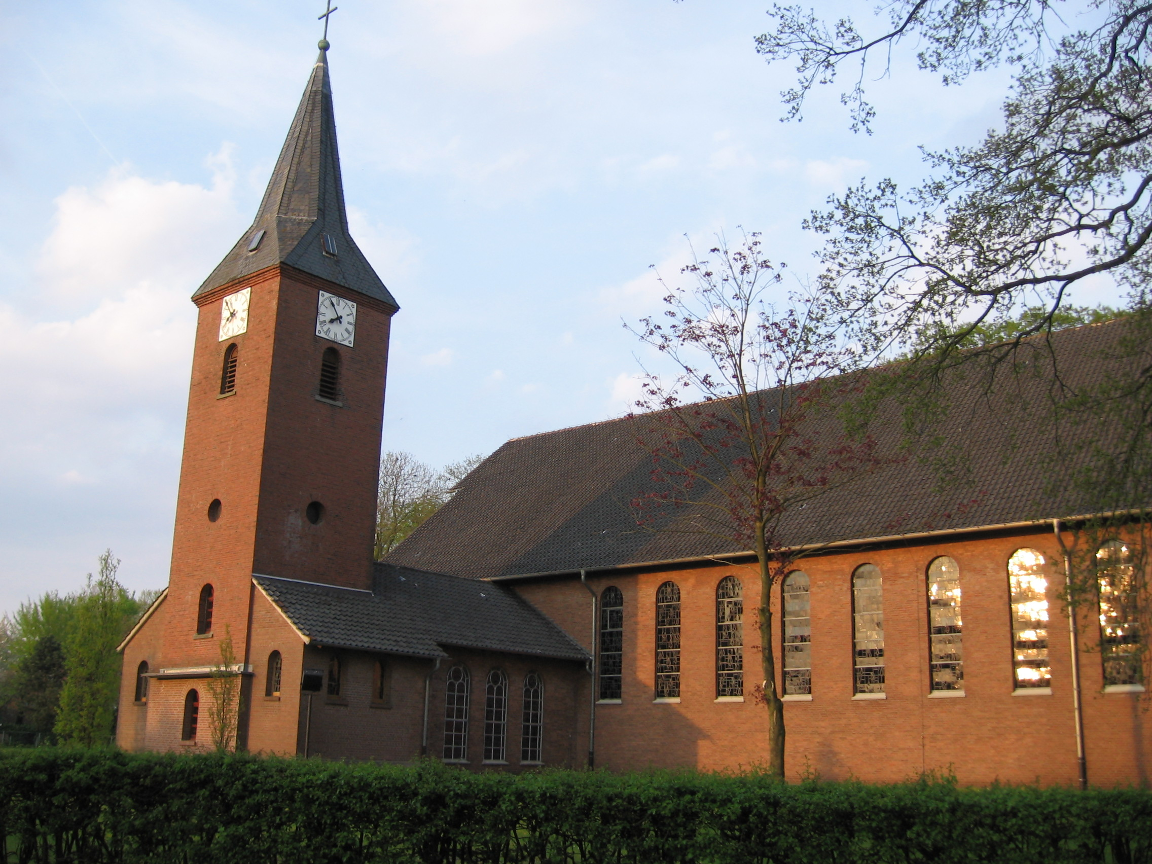 Catholic St. Georg Church in the German municipality Twist.